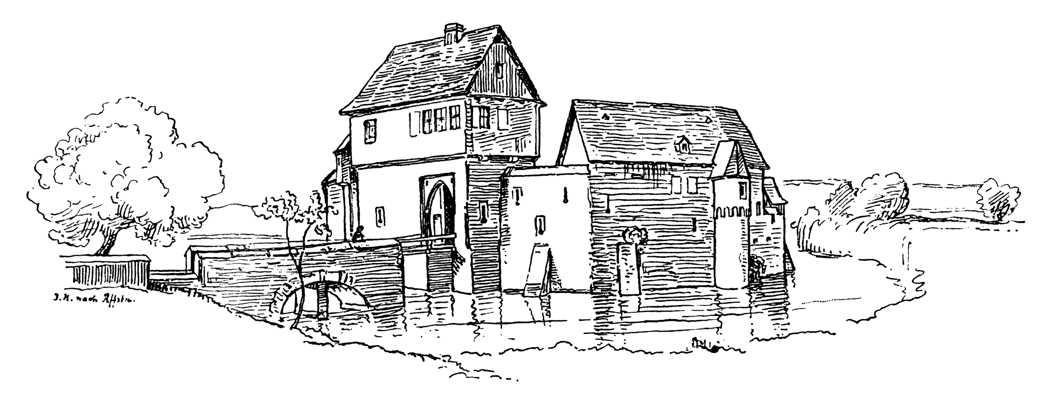 Drawing by Julius Hülsen from 1914 according to an original by Carl Theodor Reiffenstein from 1849.